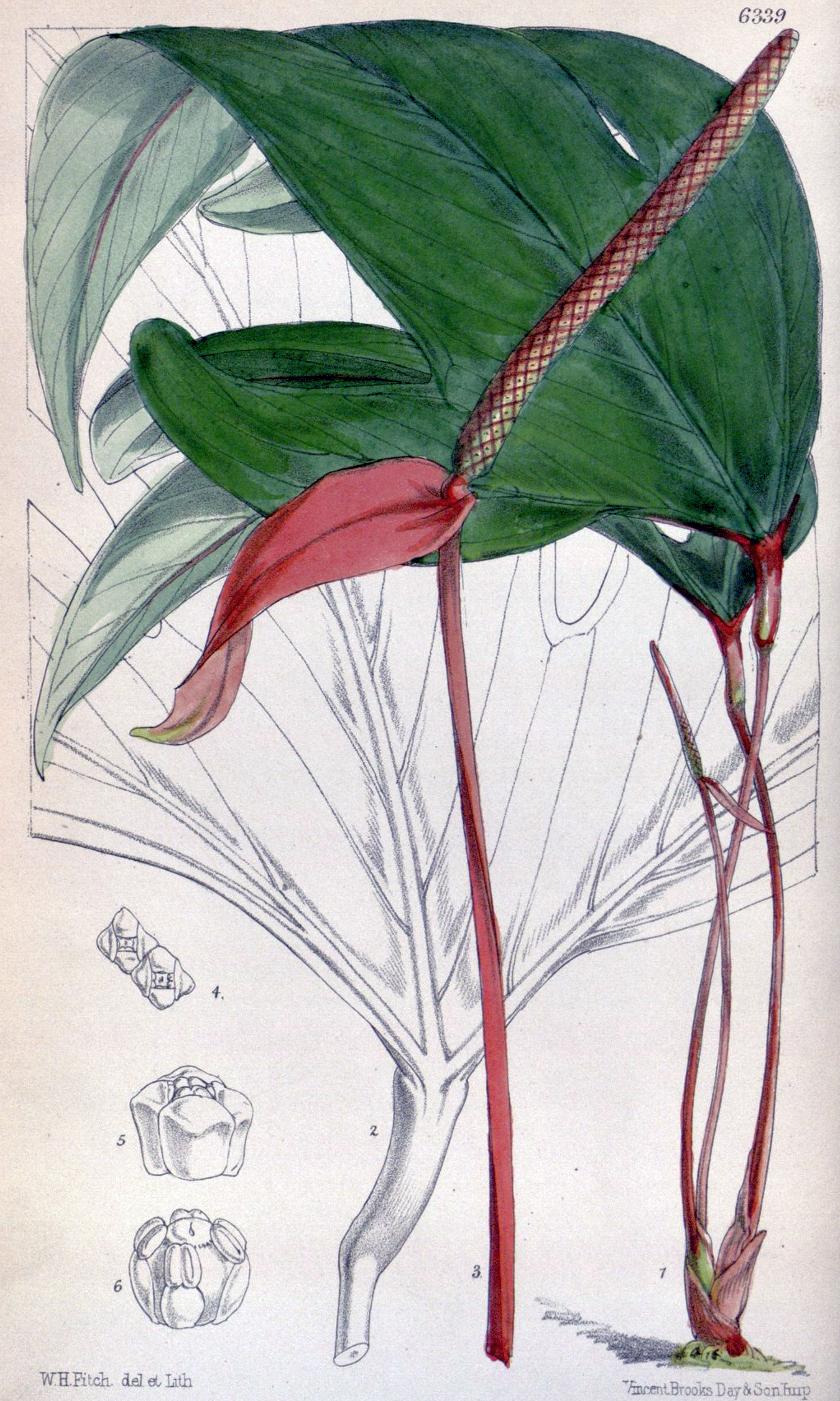 Anthurium trifidum botanical drawing